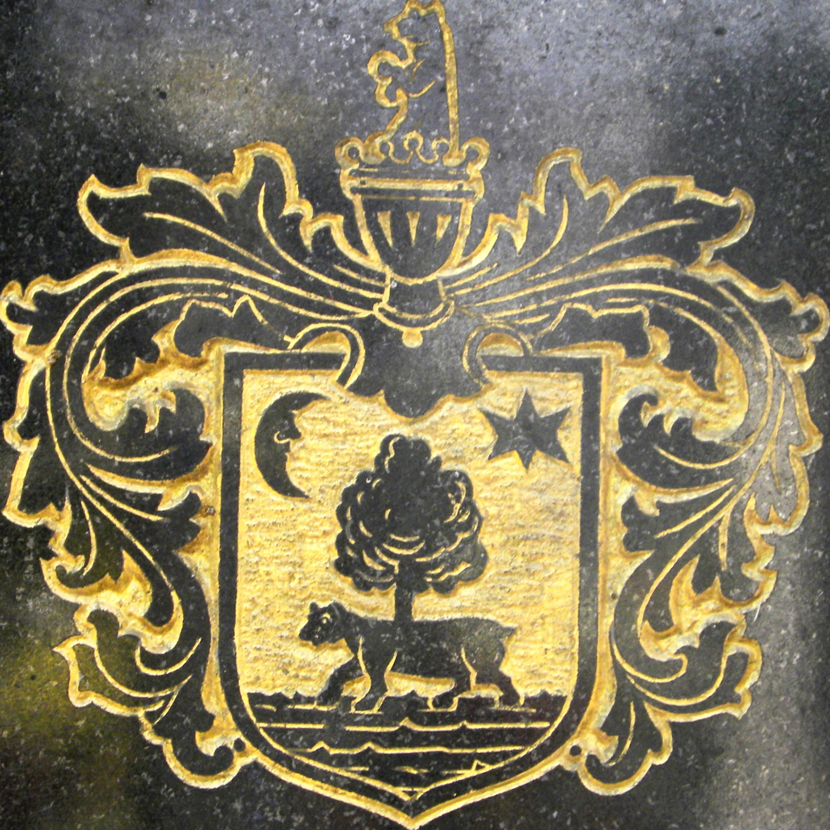 Coat of arms of János Rudnay. City Cemetery, Nitra.